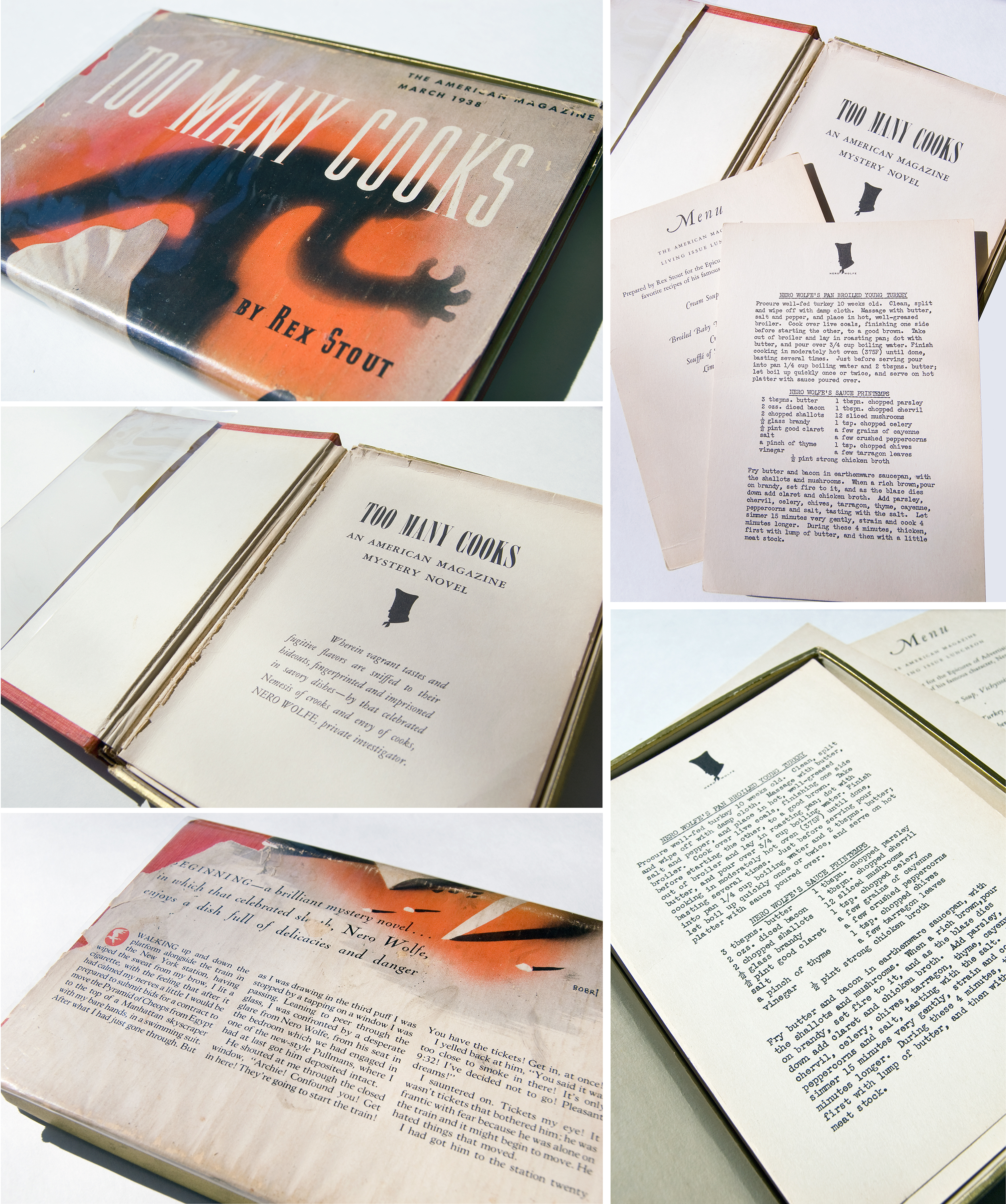 Recipe box created to promote the serialized printing of Too Many Cooks, a Nero Wolfe novel by Rex Stout, beginning in the March 1938 issue of The American Magazine